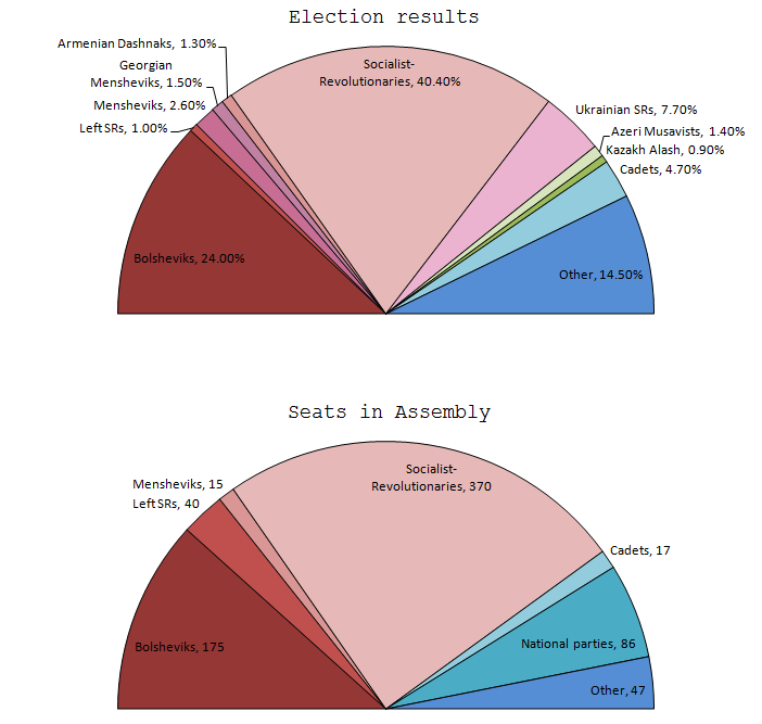 Russian Constituent Assembly Election 1917, party colors are arbitrary, party locations are arbitrary